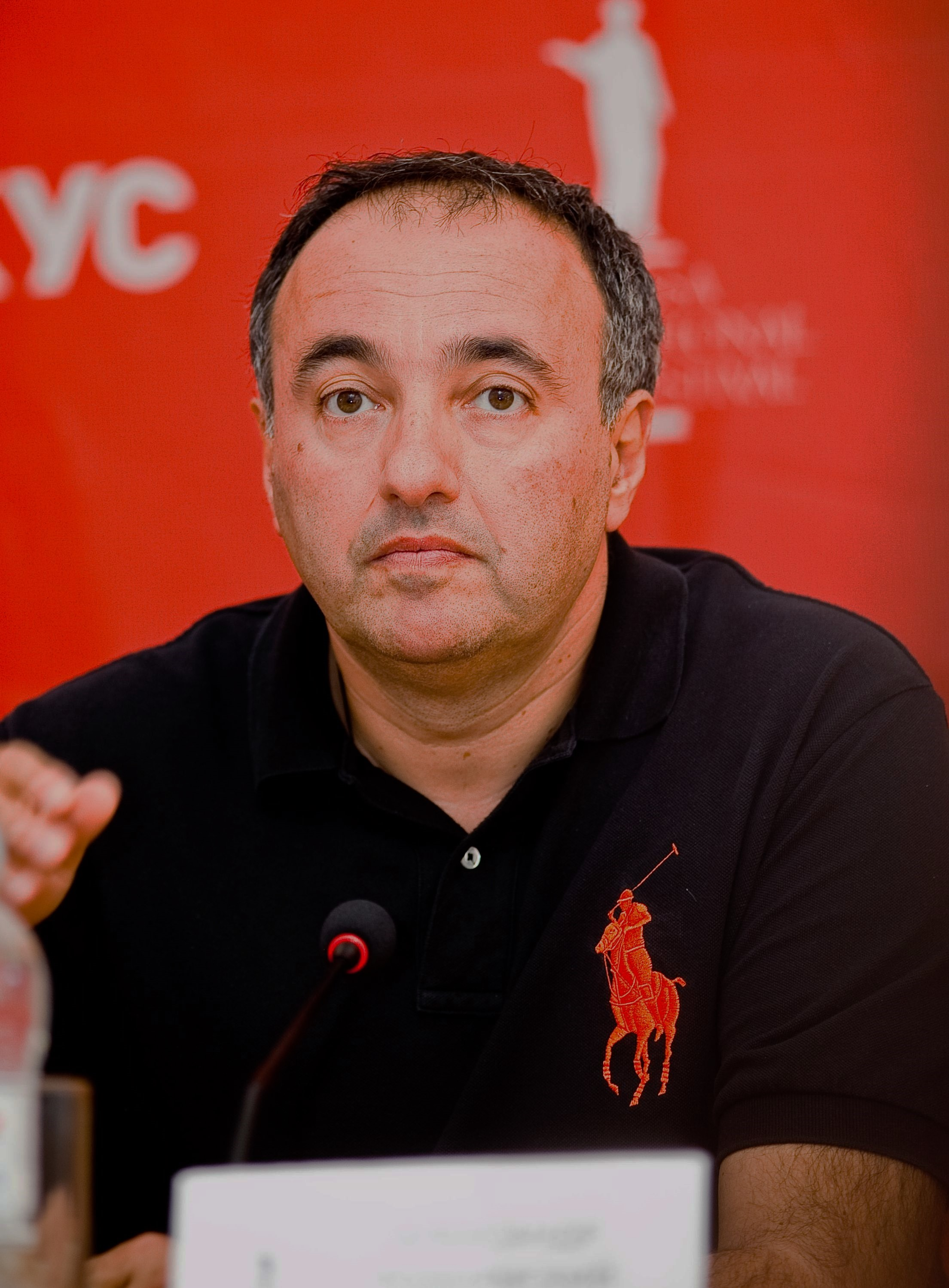 Ukrainian film producer Alexander Rodnyansky